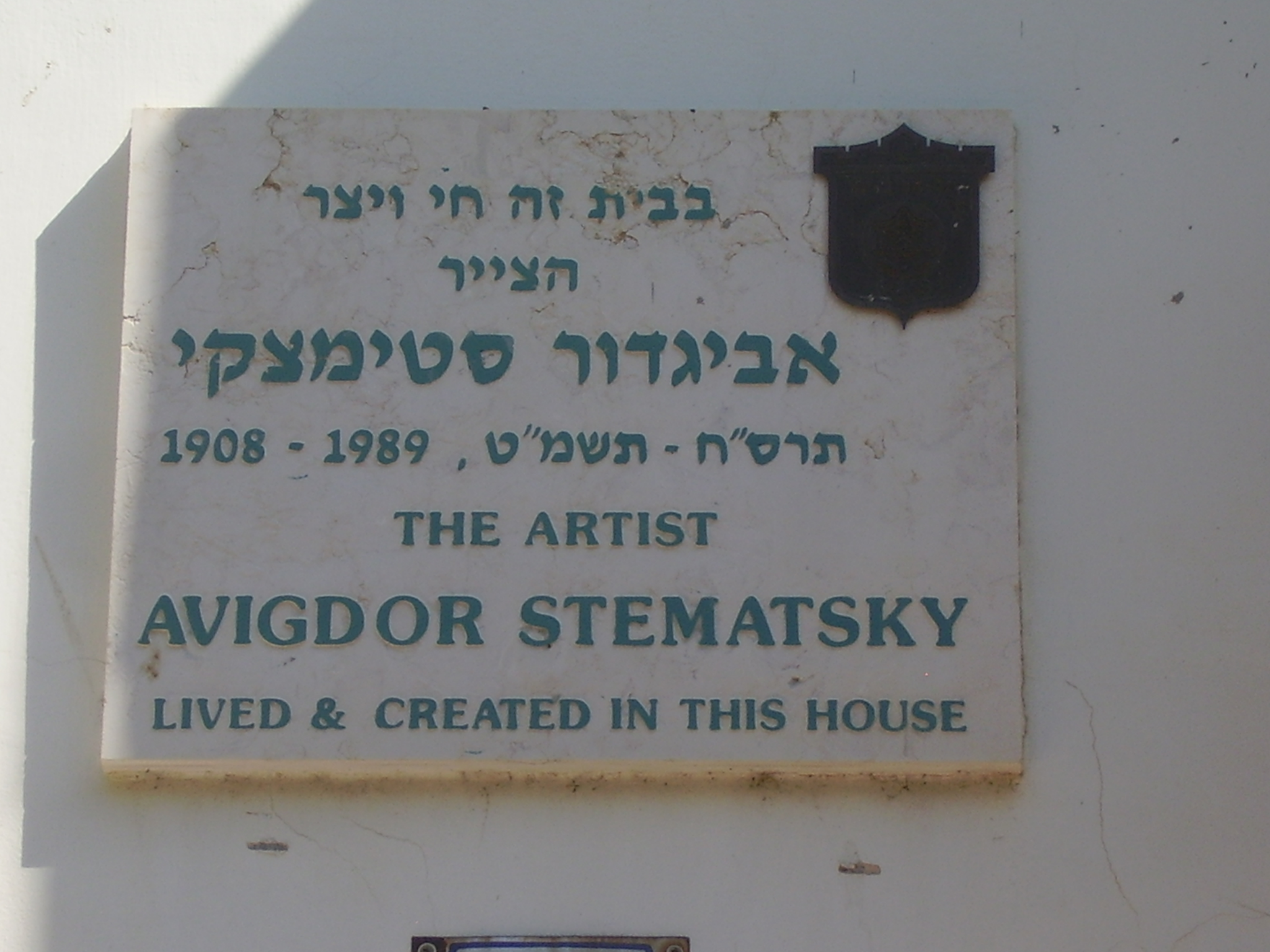 memorial plaque on the house of the painter avigdor stematsky in tel aviv לוחית זיכרון על ביתו של הצייר אביגדור סטימצקי ברח' מאנה 19 בתל אביב